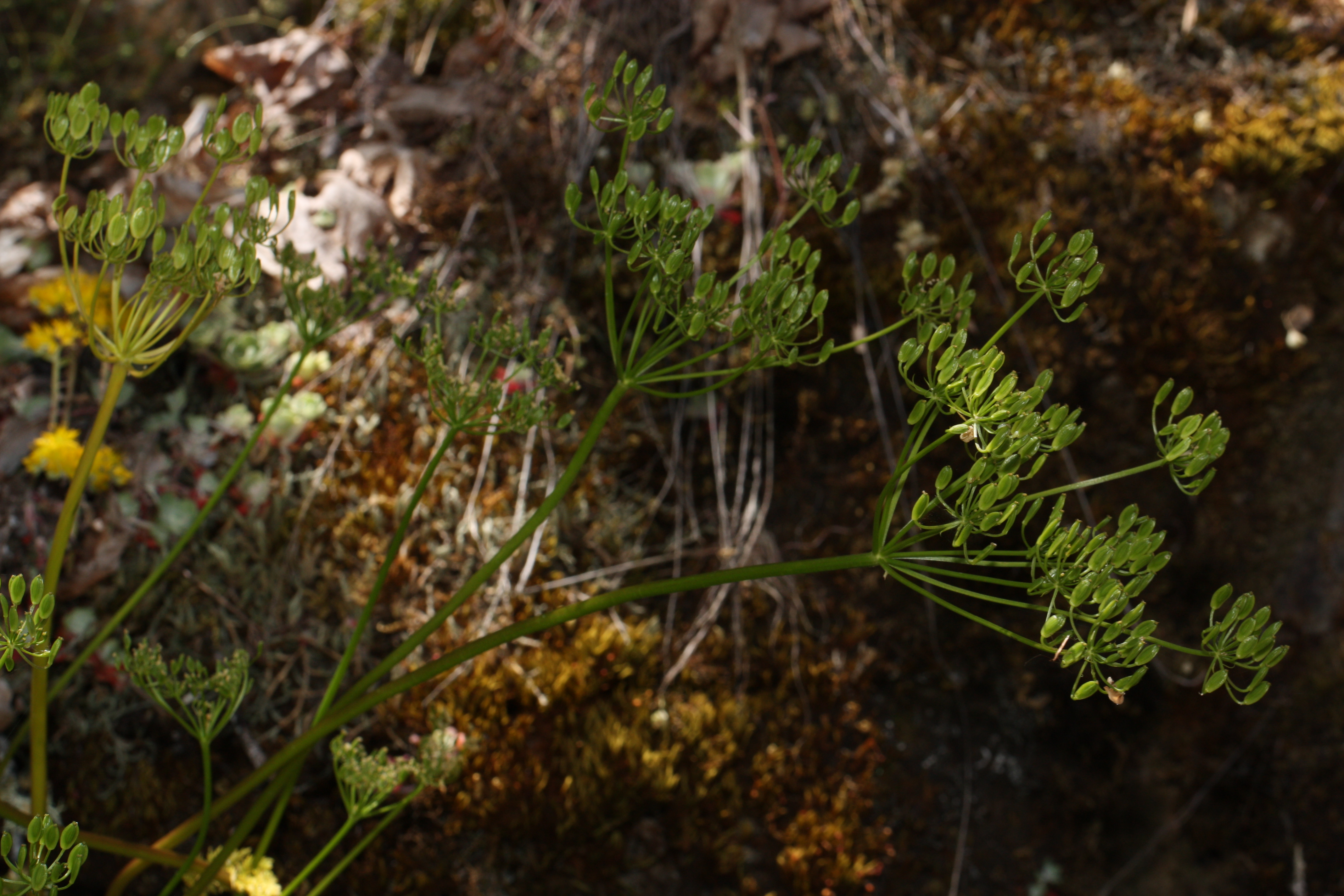 Hall's Biscuitroot Viewpoint location: Galice Road (BLM 34-8-13) at Grave Creek Bridge Rogue Wild and Scenic River Viewpoint elevation: 221 meter (724 ft) Location source: Garmin GPSmap 60CSx Location Datum: WGS84